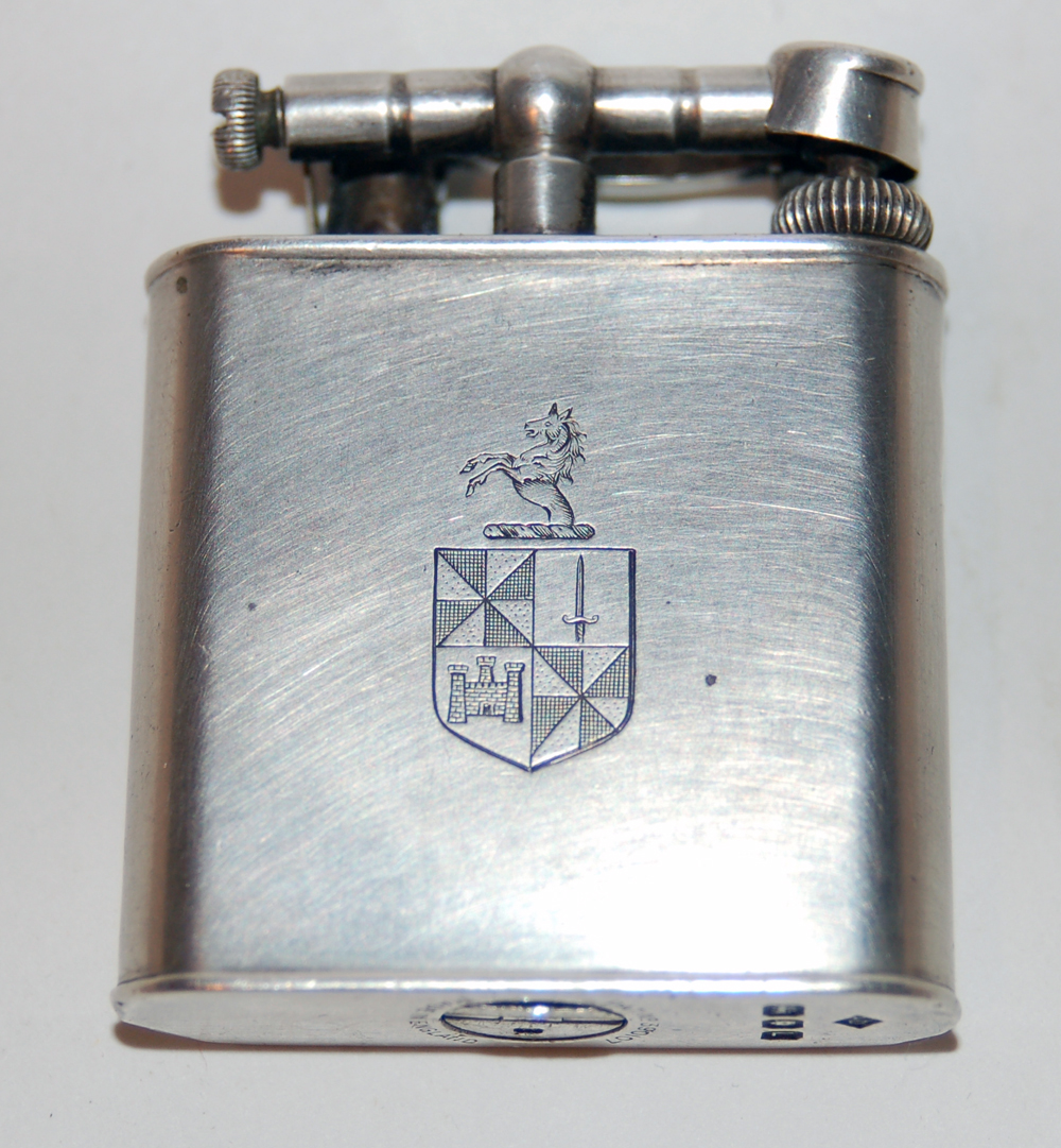 Sterling silver Dunhill Unique lighter bearing a family coat of arms.